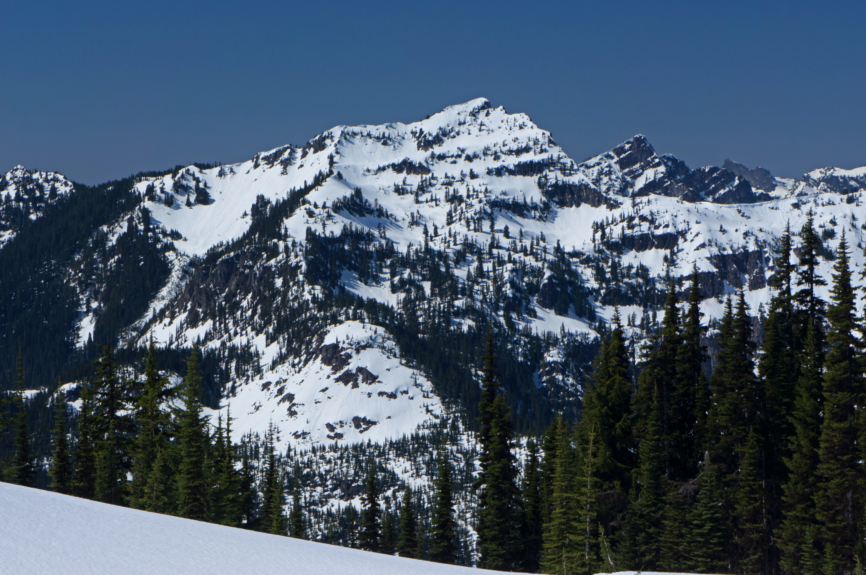 View of Terrace Mountain from Mac Peak